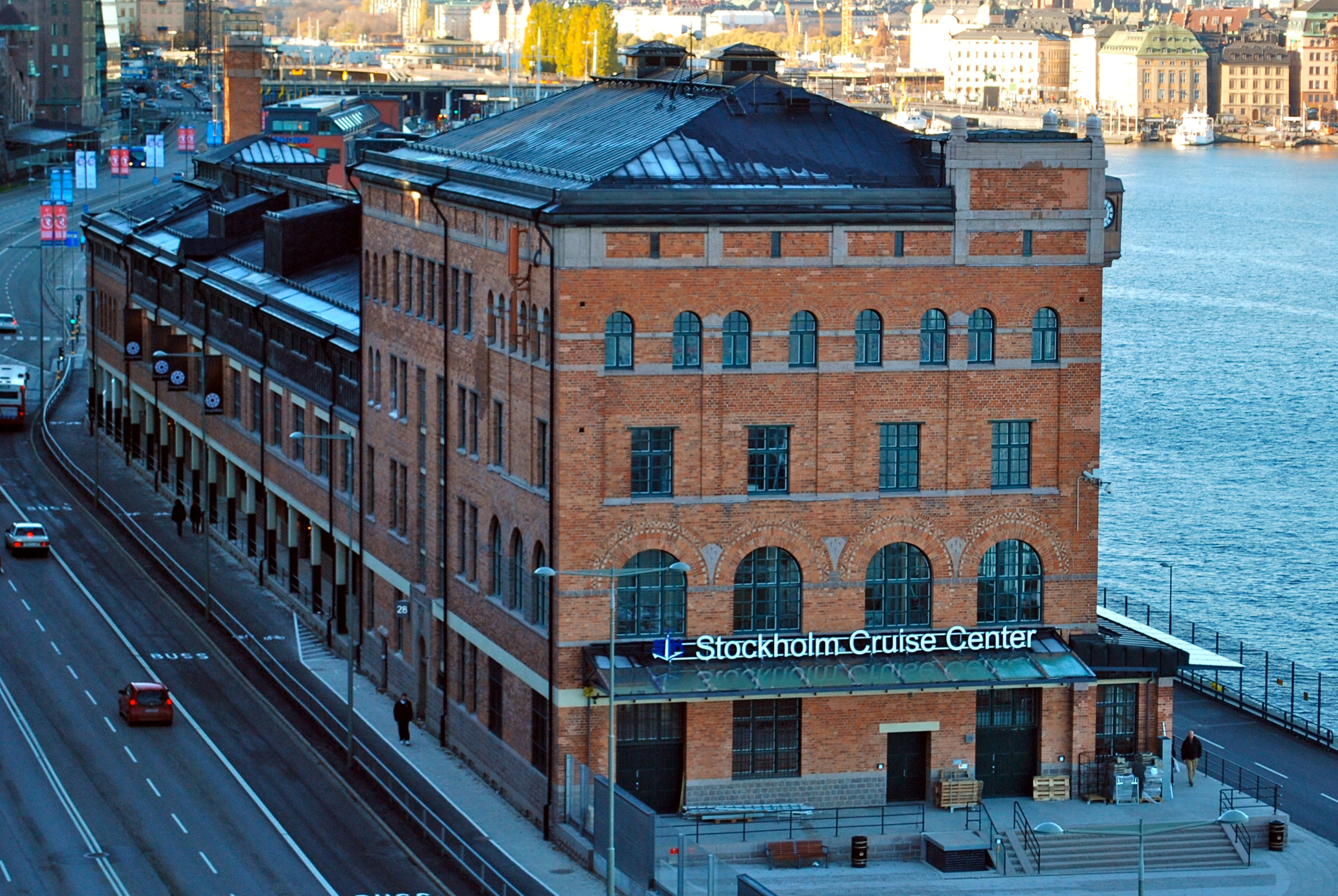 Stora Tullhuset (Swedish The Big Customs House). Arcitect Ferdinand Boberg.